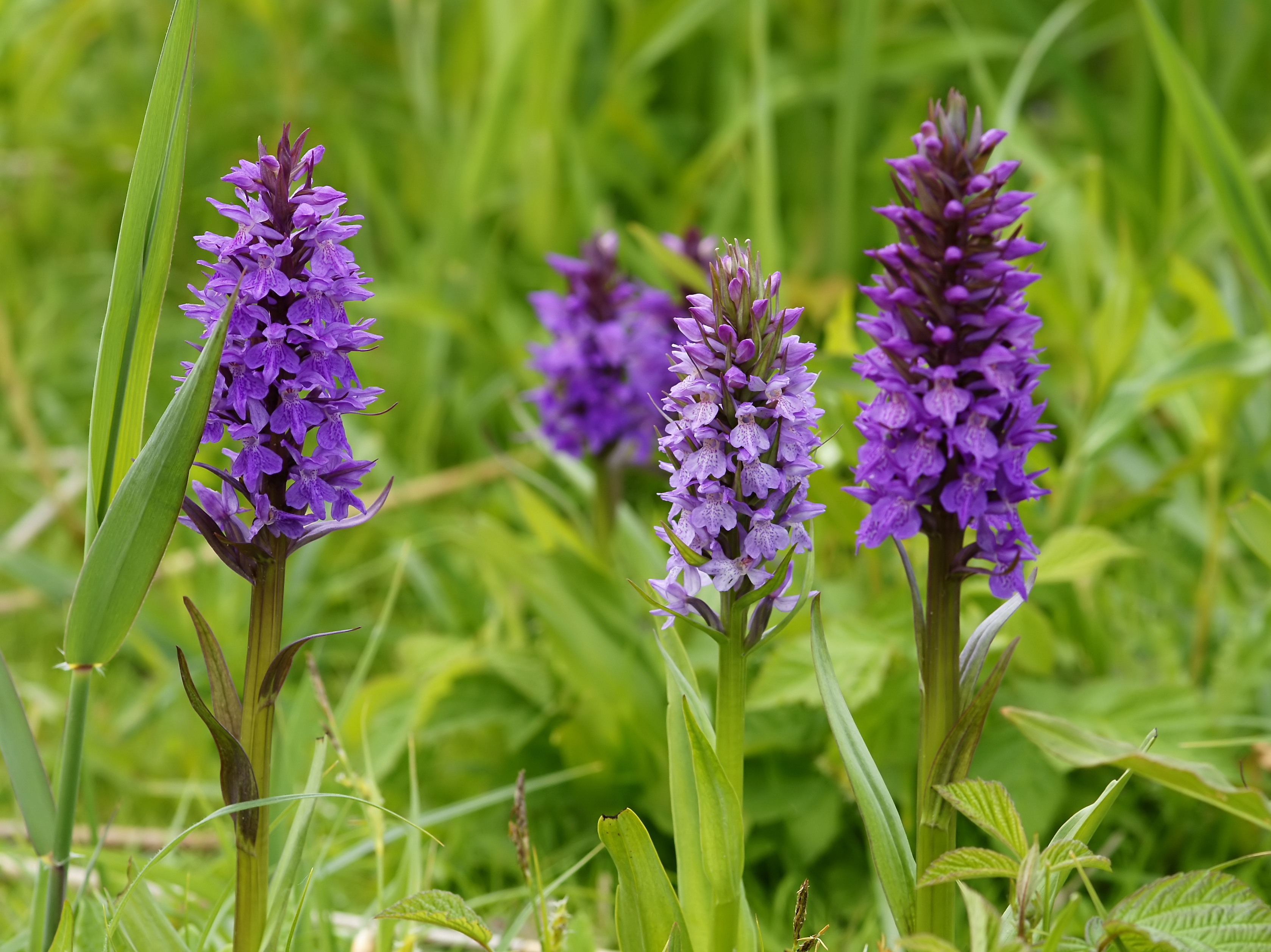 Southern Marsh-orchid. Belgium